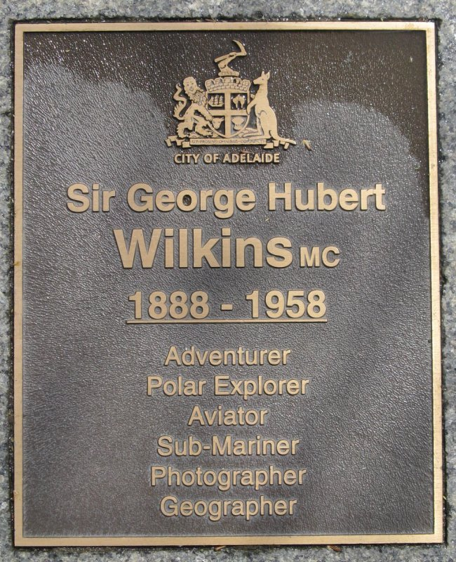 Jubilee 150 Walkway Plaque commemorating xx